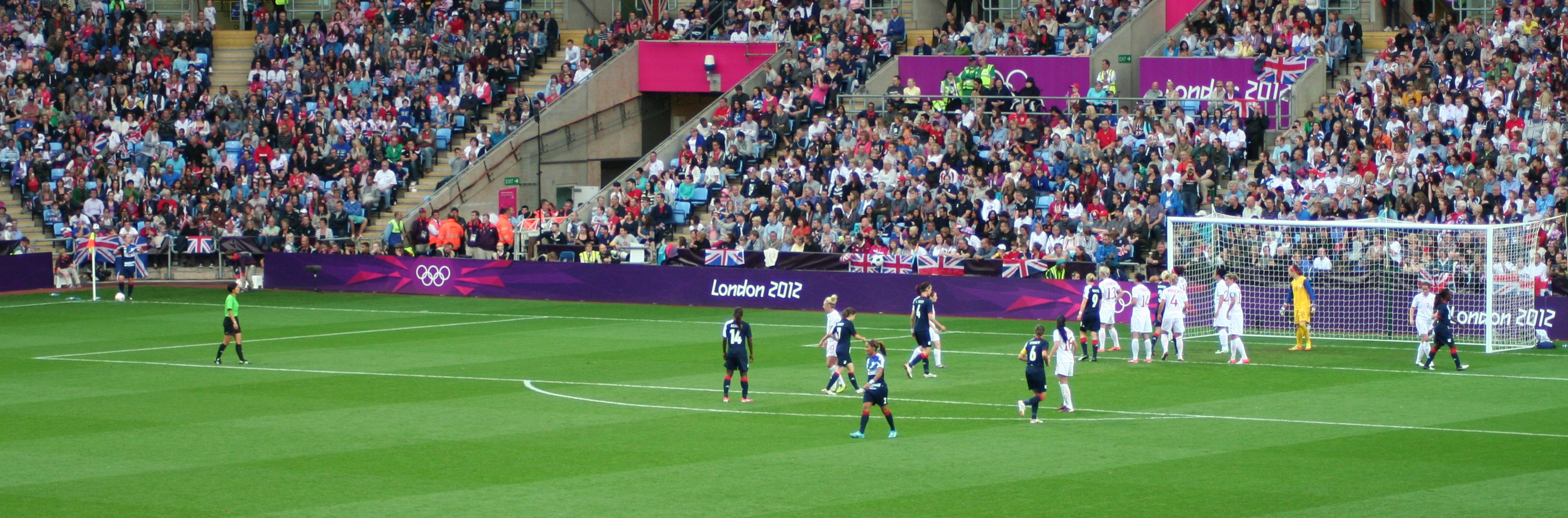 2012 Summer Olympics, Football, GB vs Canada